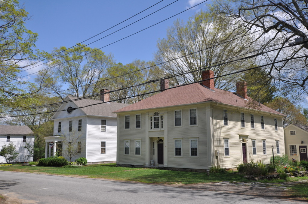 Houses in the Chaplin Historic District, Chaplin, Connecticut.